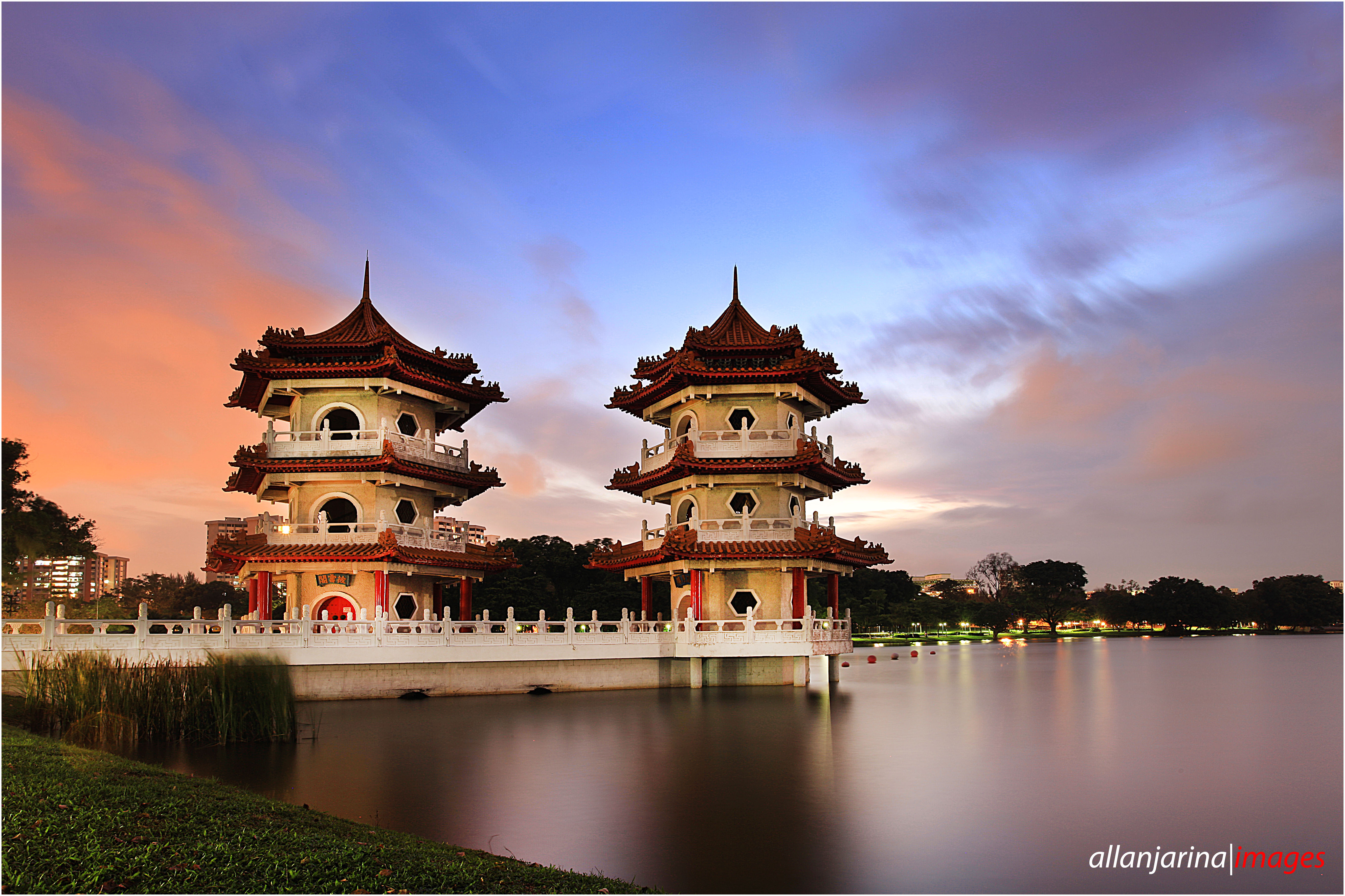 A view of the twin pagoda in the Chinese Garden in Singapore